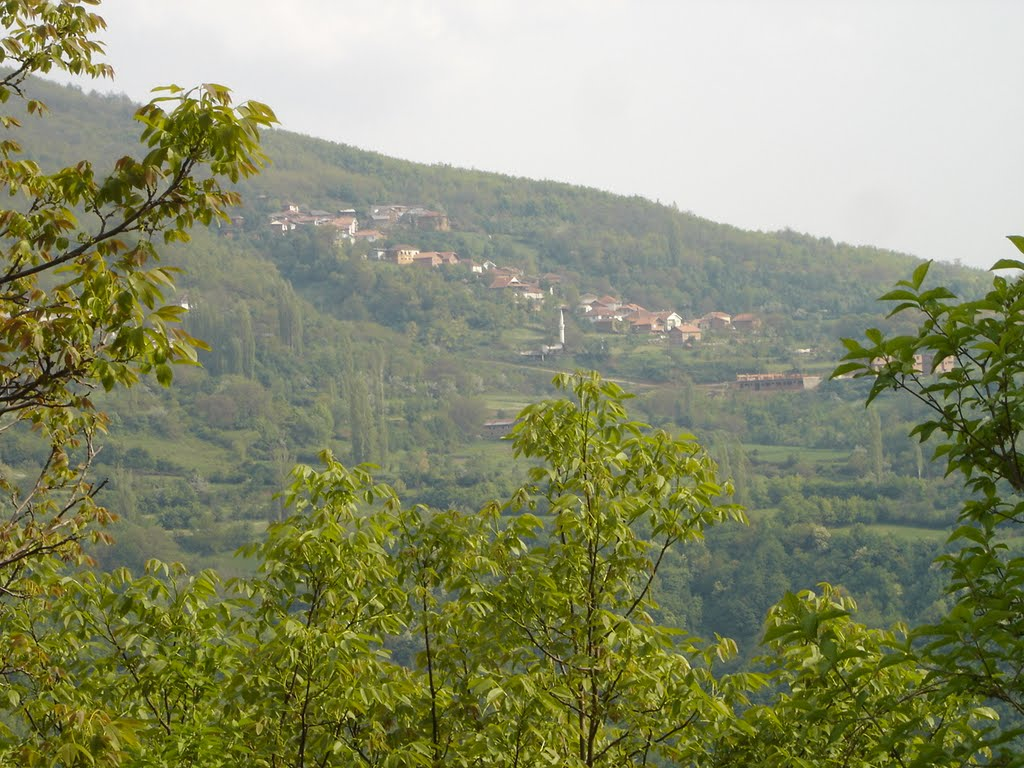 Village of Gorenci near Debar, Macedonia